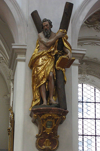 Saint Andrew